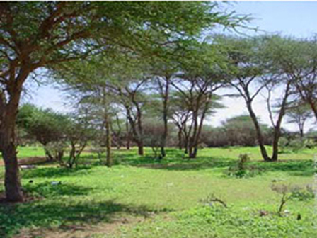 Dhahar city, Maakhir, Somalia